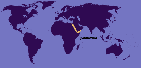 Localities map Cypraea pantherina